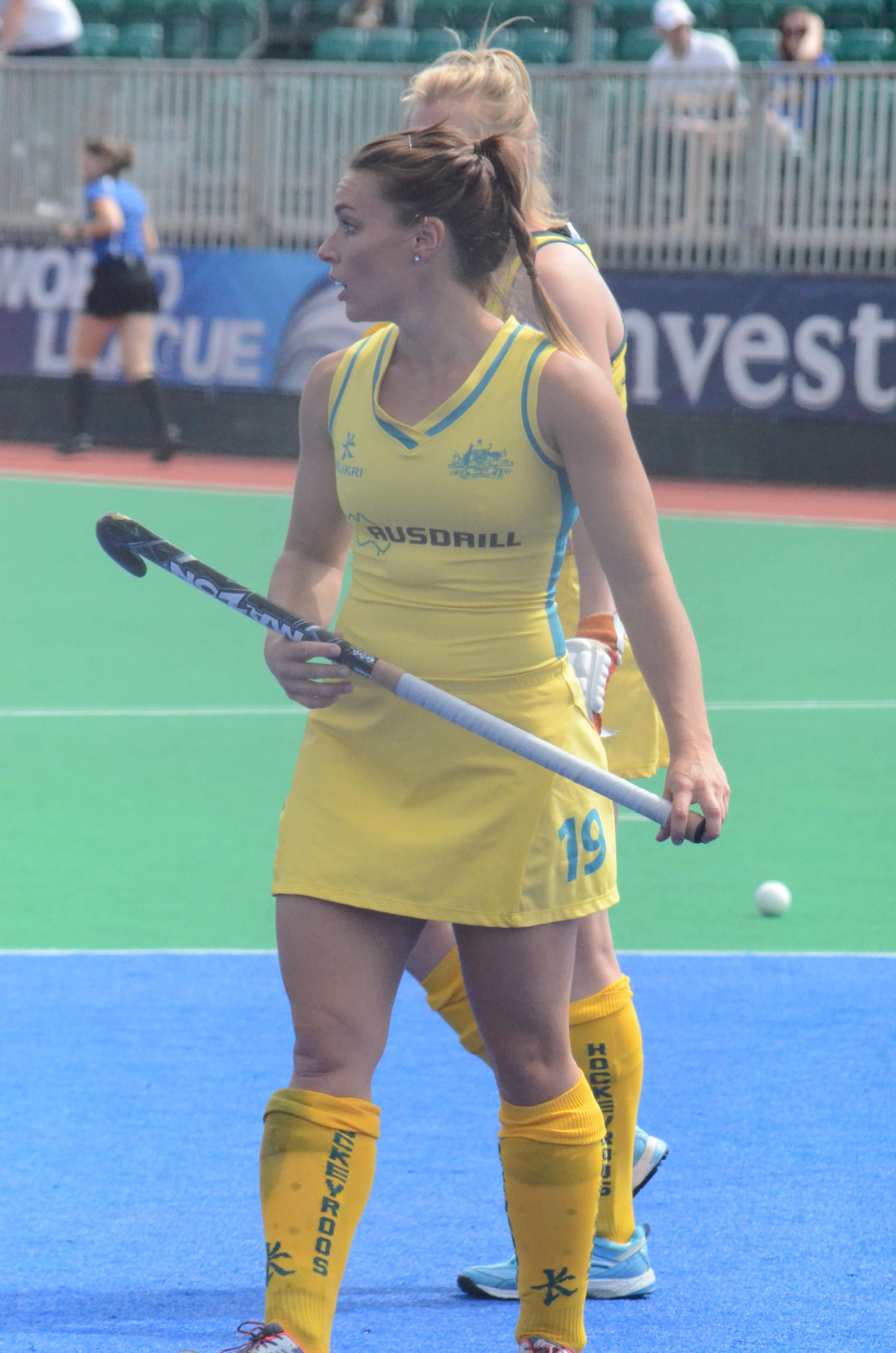 CLAXTON Jane